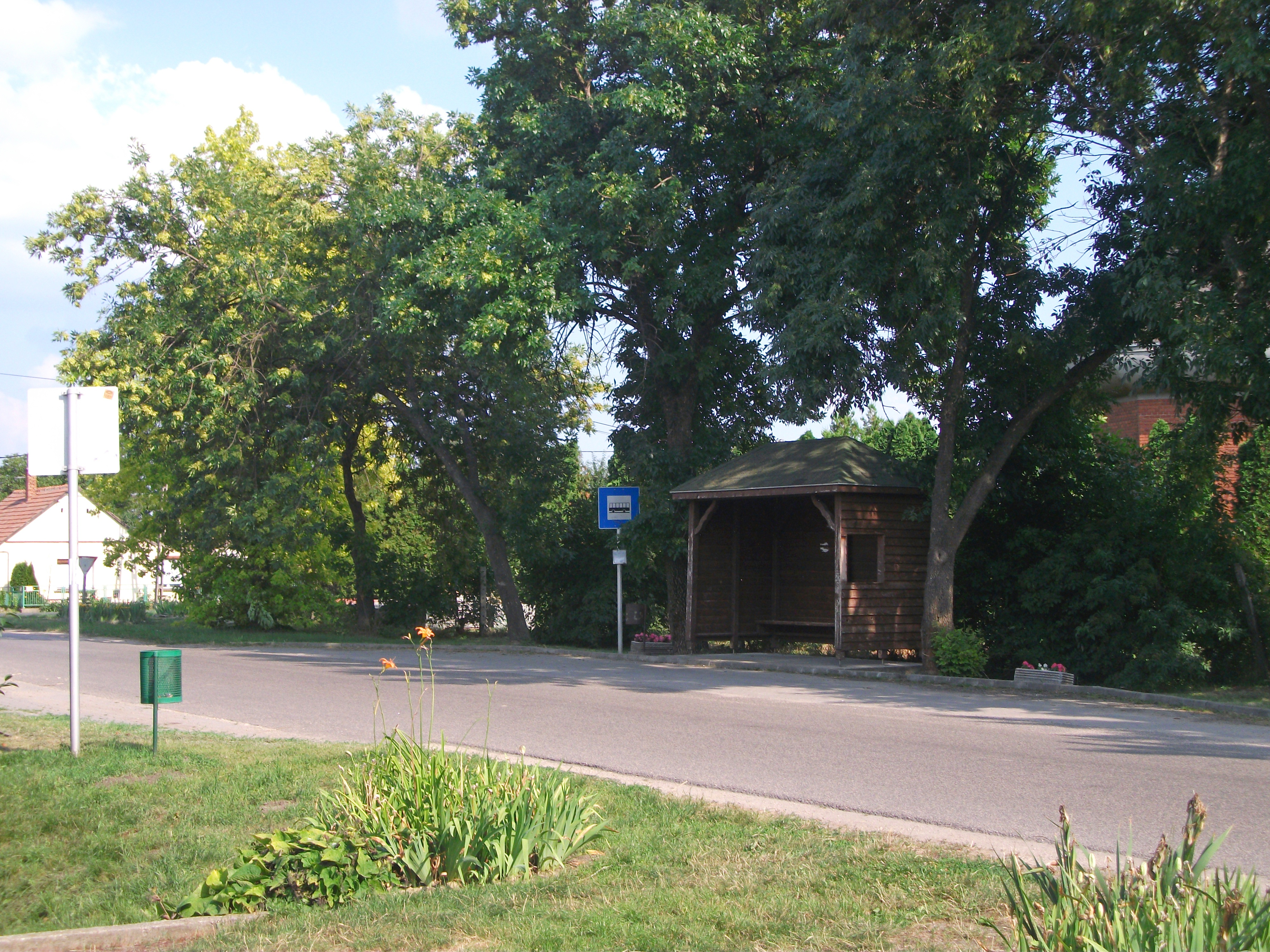 Bus stop in Zichyújfalu, Hungary.